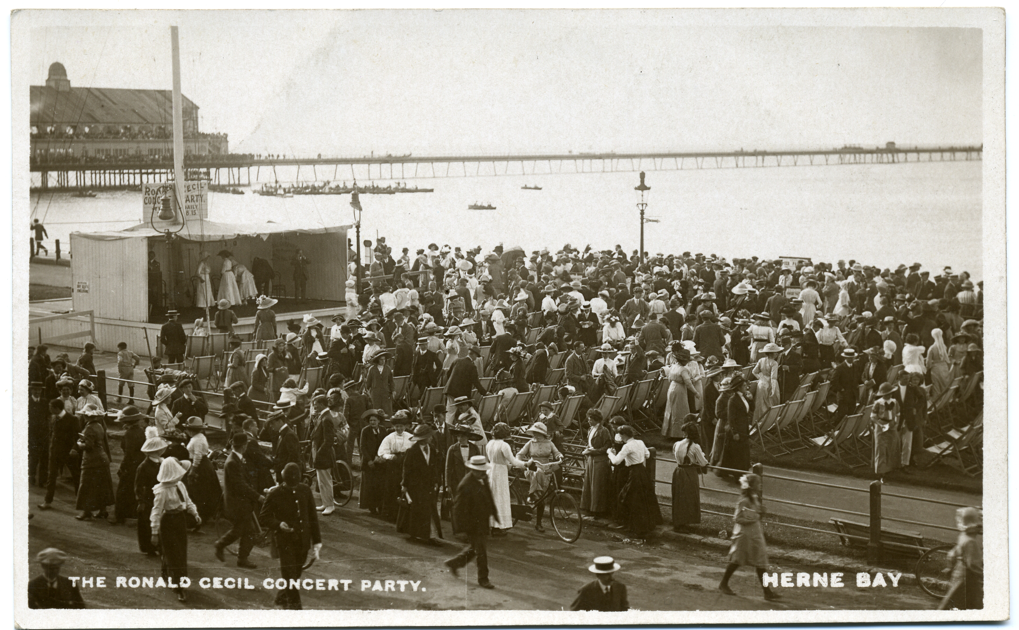 Postcard photo of the daily Ronald Cecil Concert party between Tower Gardens and the Clock Tower, Herne Bay, Kent, dated 1910-1913. The photographer was Fred C. Palmer of Tower Studio, Herne Bay, Kent, who is believed to have died 1936-1939. This photo appears to be contemporary with File:Fred C Palmer 005b.jpg which shows the same concert party stage in the background. Border The remaining border of this image is important for researchers of this photographer. Some photographers trimmed their images more than others, and Palmer has a reputation for producing smaller postcards than other early 20th century UK photographers. He took his own photos, developed them in-house onto postcard-backed photographic paper and trimmed them himself. It is worth adding that during hand-developing the border is actively masked with equipment which both crops the picture and causes the white frame or border to appear on the paper. This frame is part of the design and is one of the reasons why the quality of Palmer's work is so interesting, and why there is an article and category for him on English Wiki. Researchers need to see exactly where the edge of the postcard is. It's also important to be able to see that this extraordinary tableaux vivants picture that contains so much is really just a postcard. Thank you for taking the time to read this.